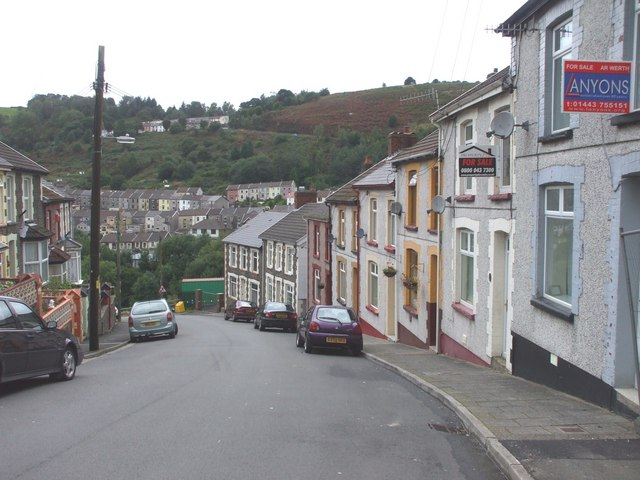 Looking down Llanwonno Rd, Stanleytown